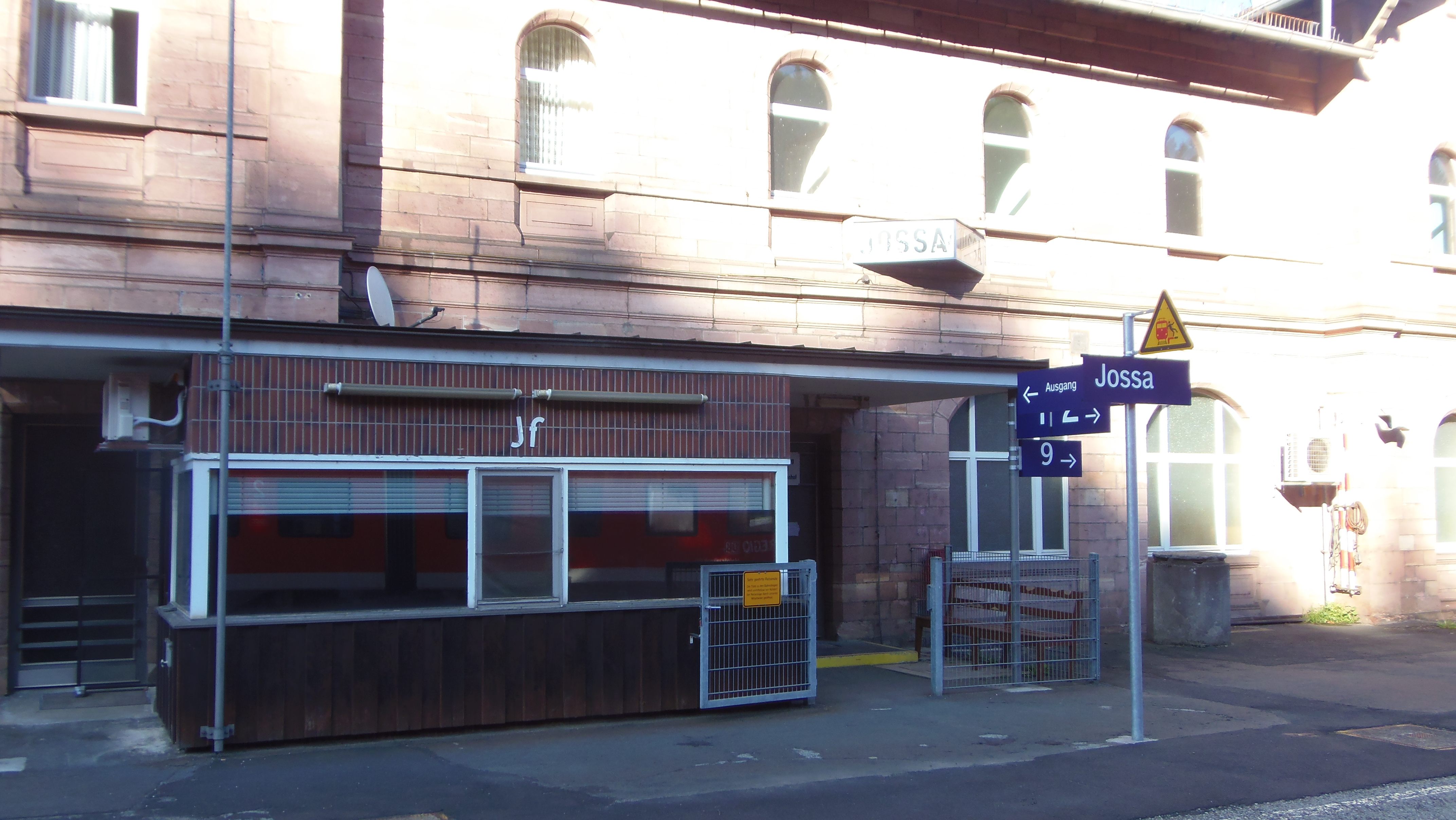 Train station of Jossa with signalbox